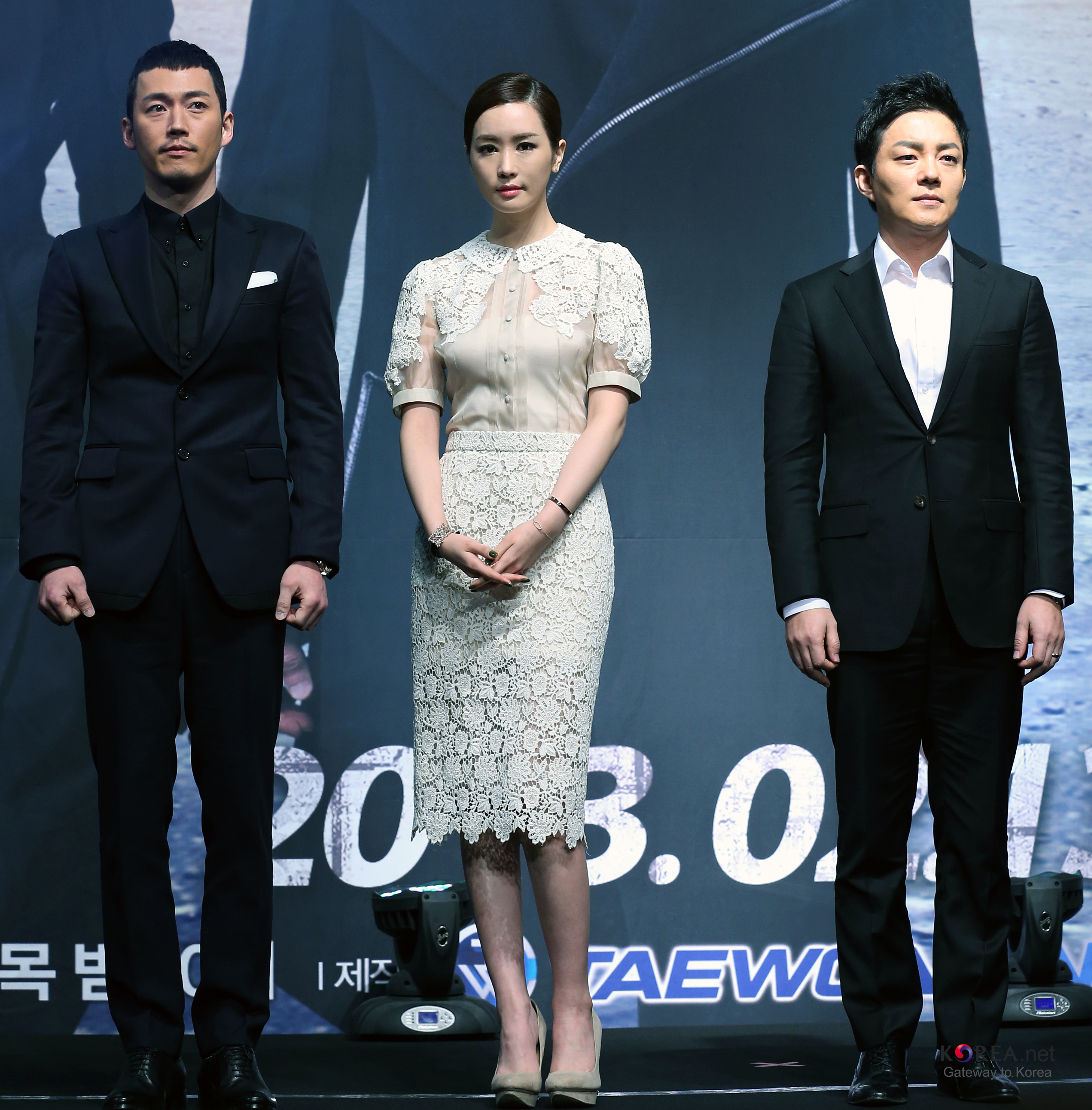 K-Drama 'IRIS 2' Press Conference. From left Jang Hyuk, Lee Da-hae , Lee Bum-soo